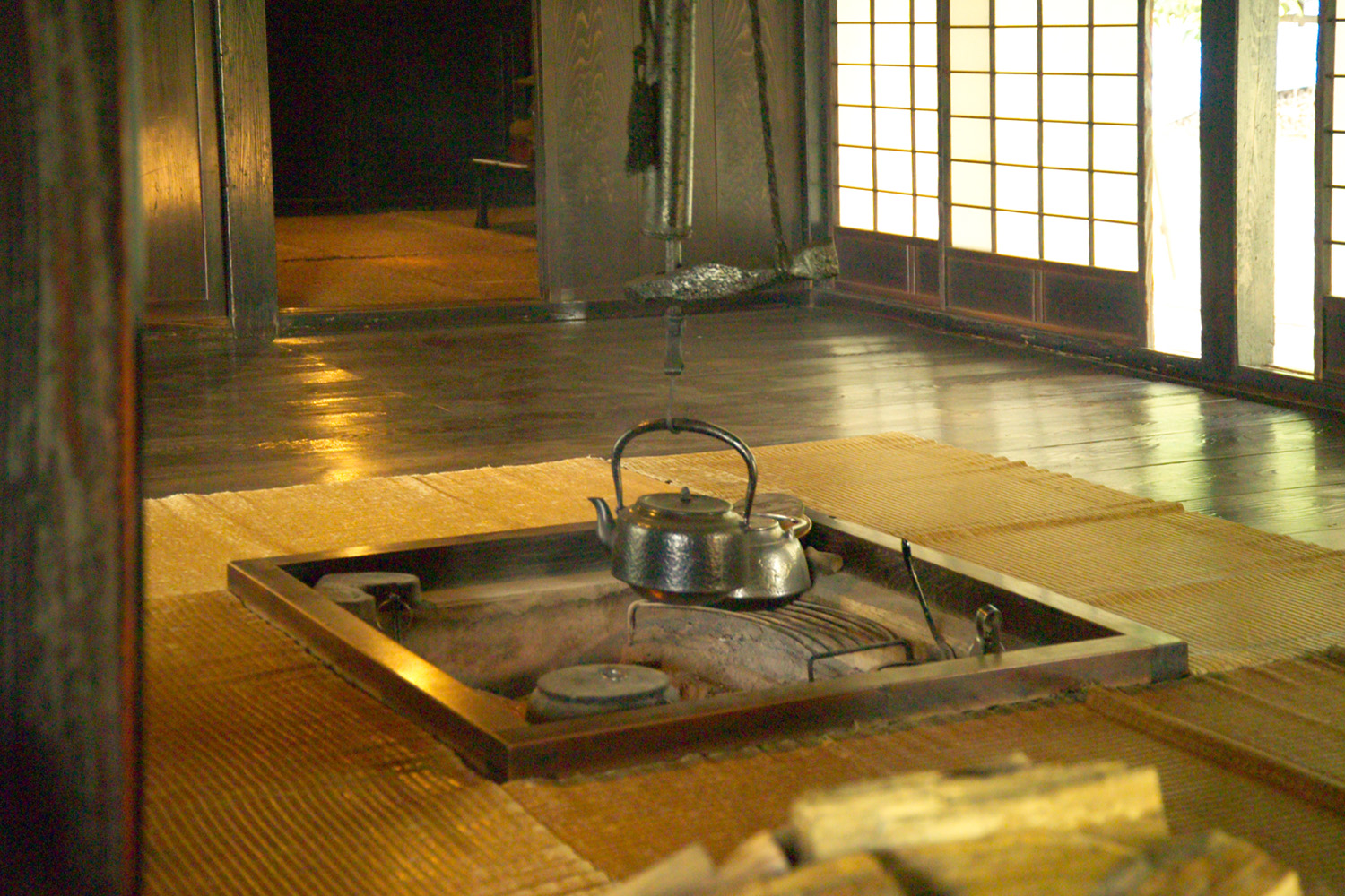 This photograph shows the hearth in a traditional Japanese house.